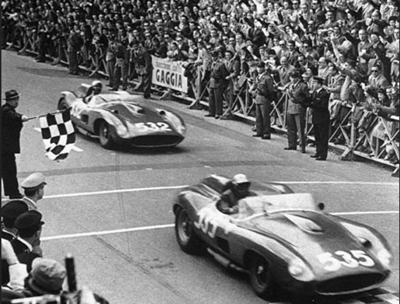 Entry #535 (front) is the winner of Mille Miglia on 12 May 1957, a Ferrari 315 S s/n 0684 driven by Piero Taruffi. Behind is entry #532, also a Ferrari 315 S s/n 0674 driven by Wolfgang von Trips, he ended in 2nd place.